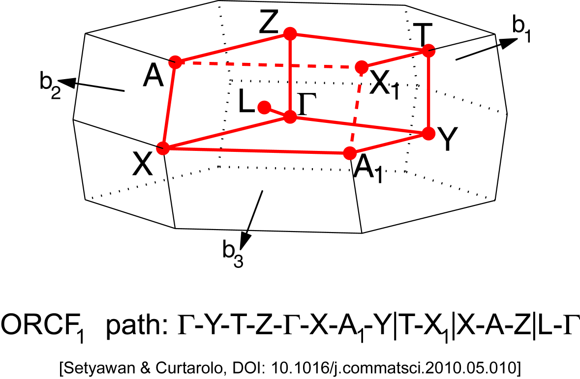 Curtarolo, consortium